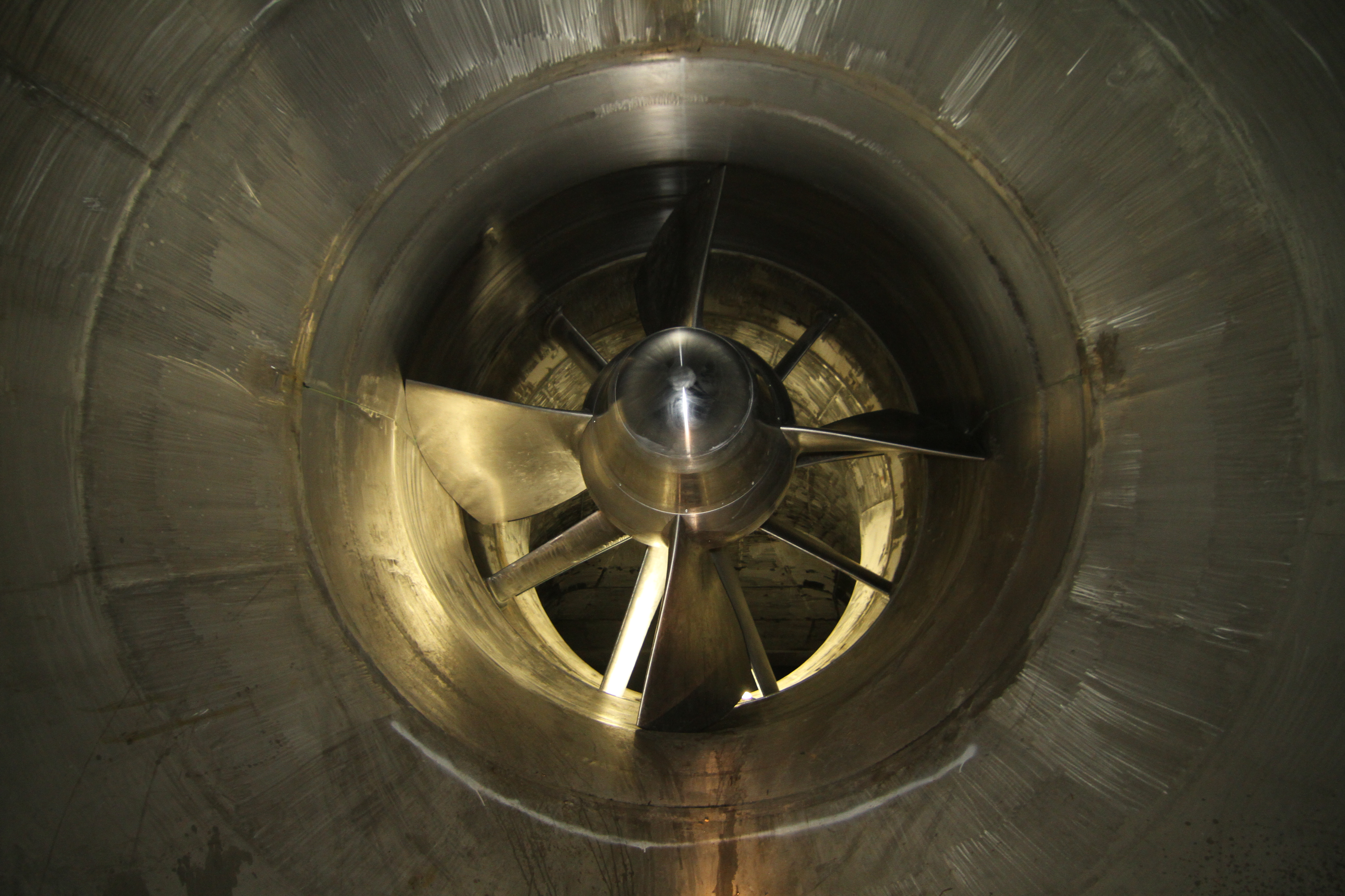 View in one of the two S-tubes of the hydroelectric power plant on the river Weser in Bremen, Germany, with installed turbine. Located in the foreground is the rotor blade, in the background the guide vane.